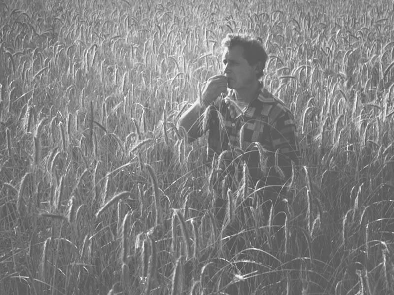 Young Agronomist (70-ies).